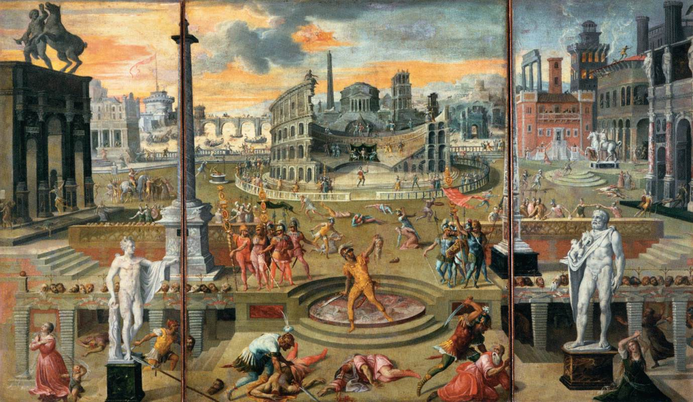 This painting refers to the massacres during the Wars of Religion in France: on April 6, 1561 Anne de Montmorency was joined by Jacques d'Albon de Saint-André and the Francis, Duke of Guise in an anti-Protestant Triumvirate. Antoine Caron also reminds the Civil Wars and the massacres carried out by Mark Antony, Octavius, the later emperor Augustus and Lepidus when they became triumvirs in 43 BC. The Roman ancient and contemporary monuments, and sculptures, the Apollo Belvedere and the Dioscuri, are painted after Antoine Lafréry's engravings. Caron had never been to Italy. On the right are Emperor Commodus as Hercules, discovered in 1507; the Arch of Constantine, built in 315 AD; Michelangelo's Capitoline Square; the Palazzo dei Senatori and the equestrian statue of Marcus Aurelius. On the left are the Apollo Belvedere; the triumphal arch of Septimus Severus from 203 AD with the a statue of the Fontana dei Dioscuri above; and Trajan's Column. The centre is occupied by the Colosseum, opened by Domitian in 80 AD; the Flaminio Obelisk in the back, the Pantheon and the (destoyed) Septizodium. In the background stand the triumphal arch of Titus on the right, the three columns of the Temple of Castor and Pollux and the Castel Sant'Angelo and Ponte Sant'Angelo on the left.